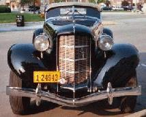 1935 Auburn Speedster, front